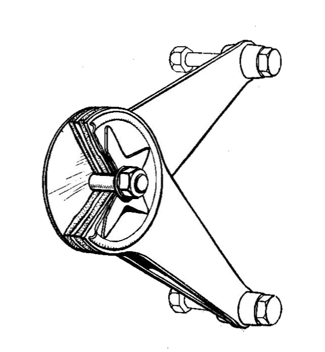 Andre Hartford friction disk shock absorber (Autocar Handbook, 13th ed, 1935).jpg